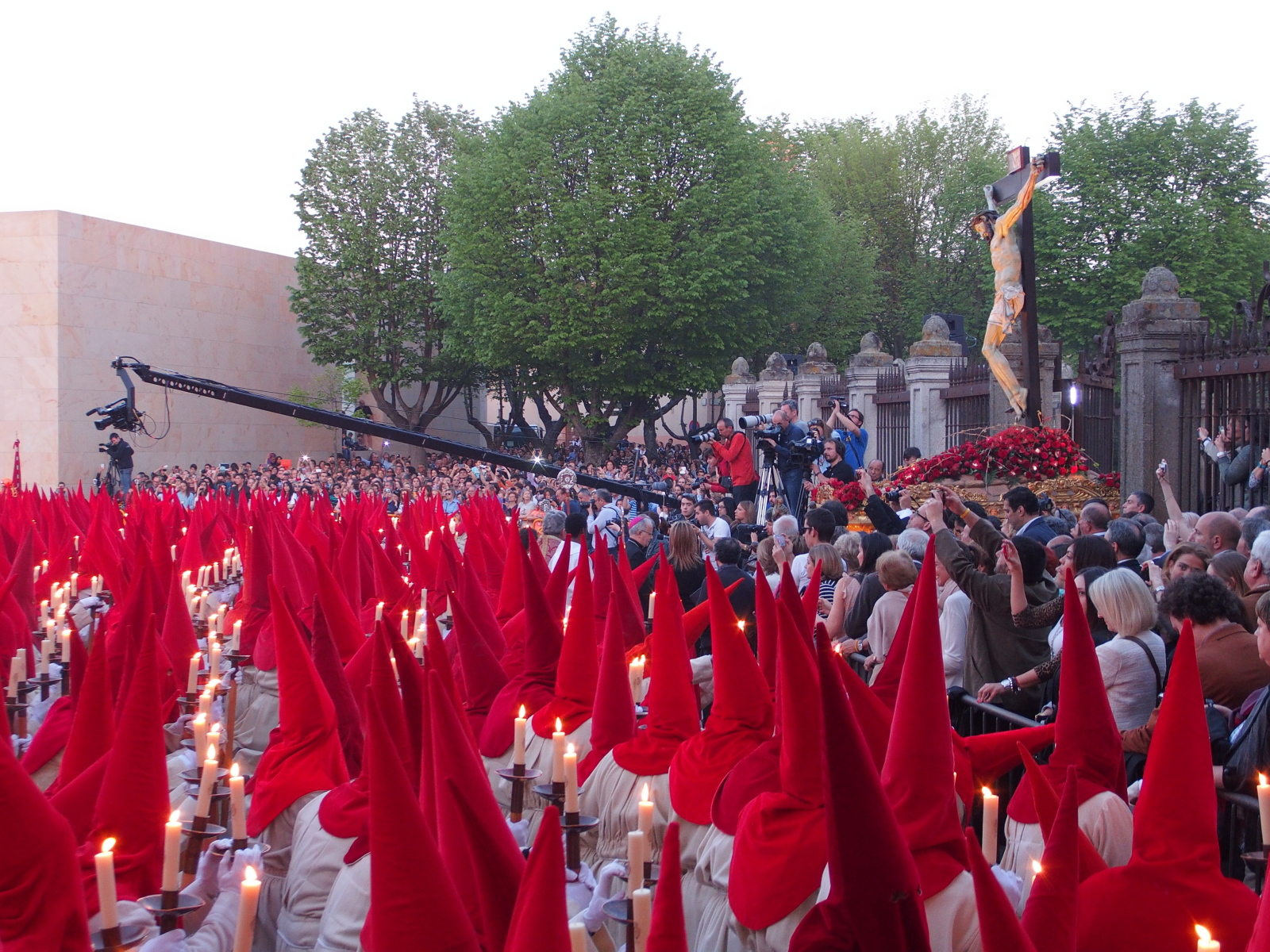 Parade of the religious brotherhood Real Hermandad del Santisimo Cristo de las Injurias (Zamora, Spain, Holy Week 2014)